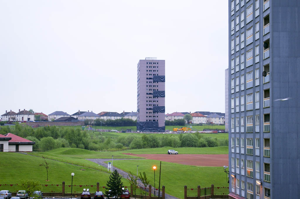 Tower block in Germiston being prepared for demolition